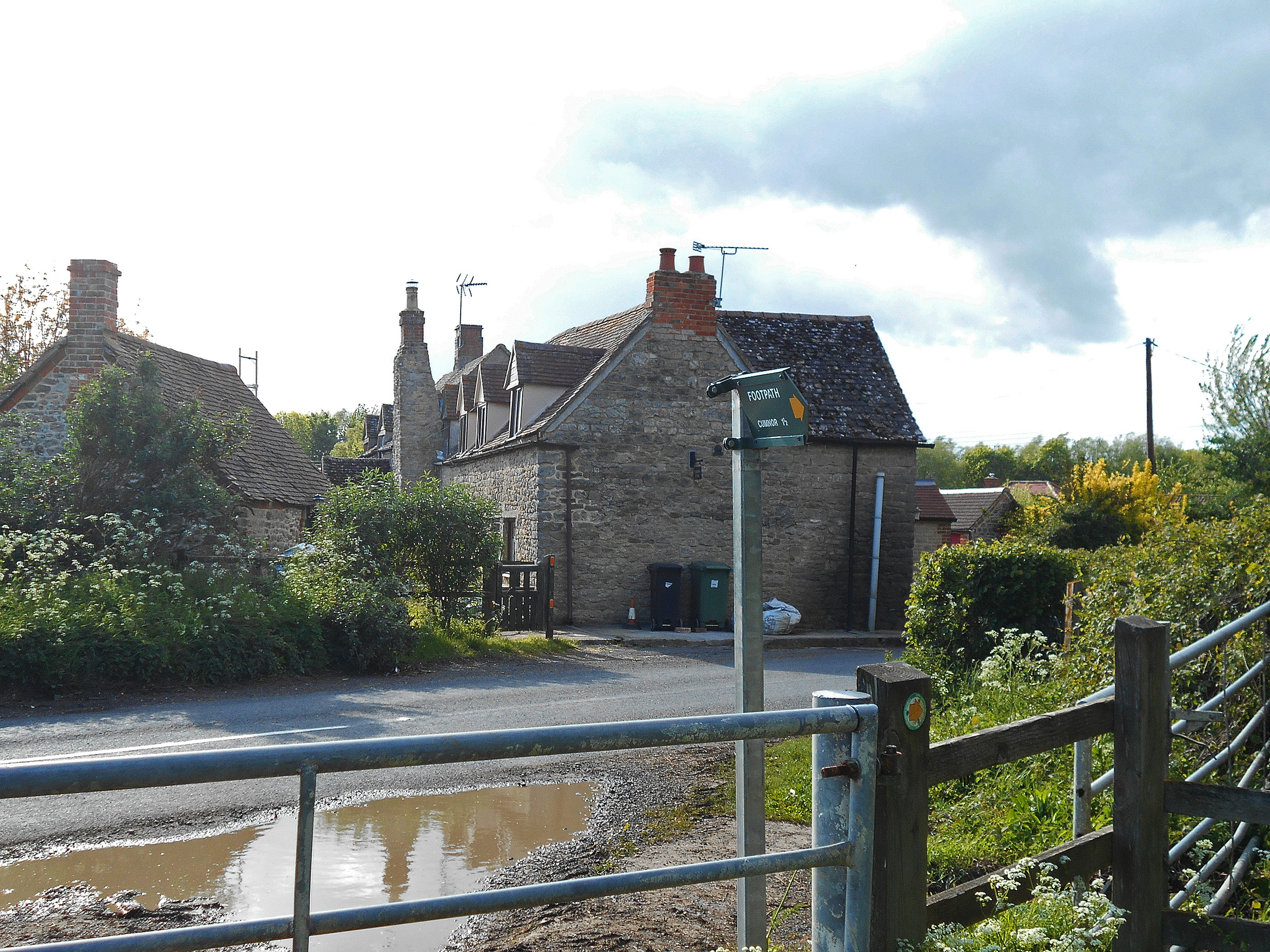 Cottages at Filchamstead. A hamlet near Oxford, England. 2015